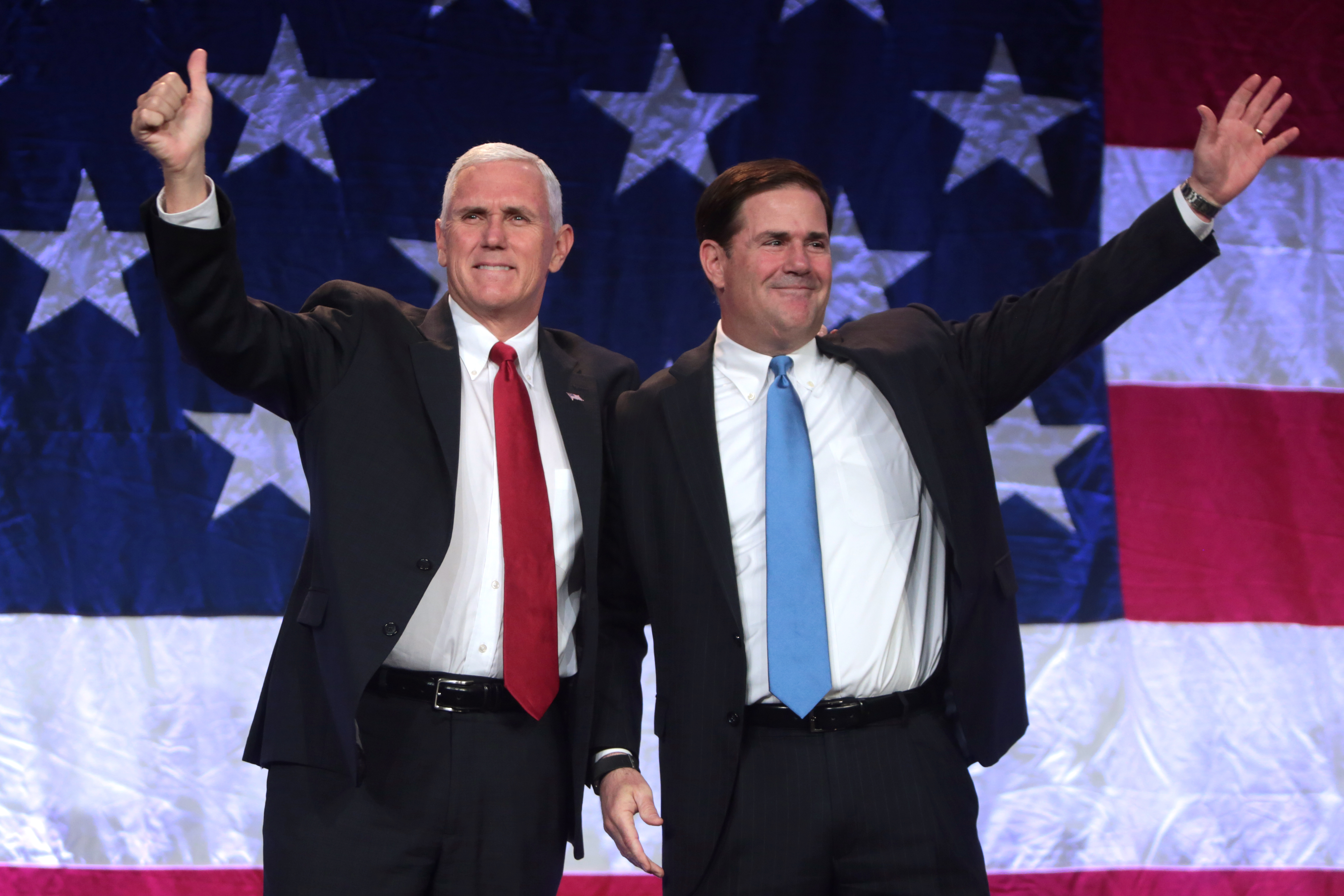 Governors Mike Pence and Doug Ducey speaking with supporters at a campaign rally at the Mesa Convention Center in Mesa, Arizona.